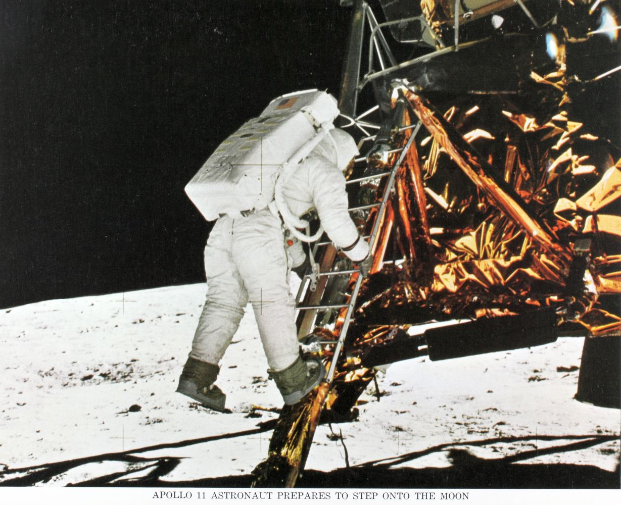 SDASM.CATALOG: 08_001921 FILE NAME: 08_01921 SDASM.TITLE: Apollo 11 Astronaut SDASM.ADDITIONAL INFO: preparing to step on moon SDASM.MEDIA: Glossy Photo SDASM.DIGITIZED: Yes SDASM.SOCIAL MEDIA: SDASM.TAGS: Apollo 11 Astronaut PUBLIC COMMONS.SOURCE INSTITUTION: San Diego Air and Space Museum Archive